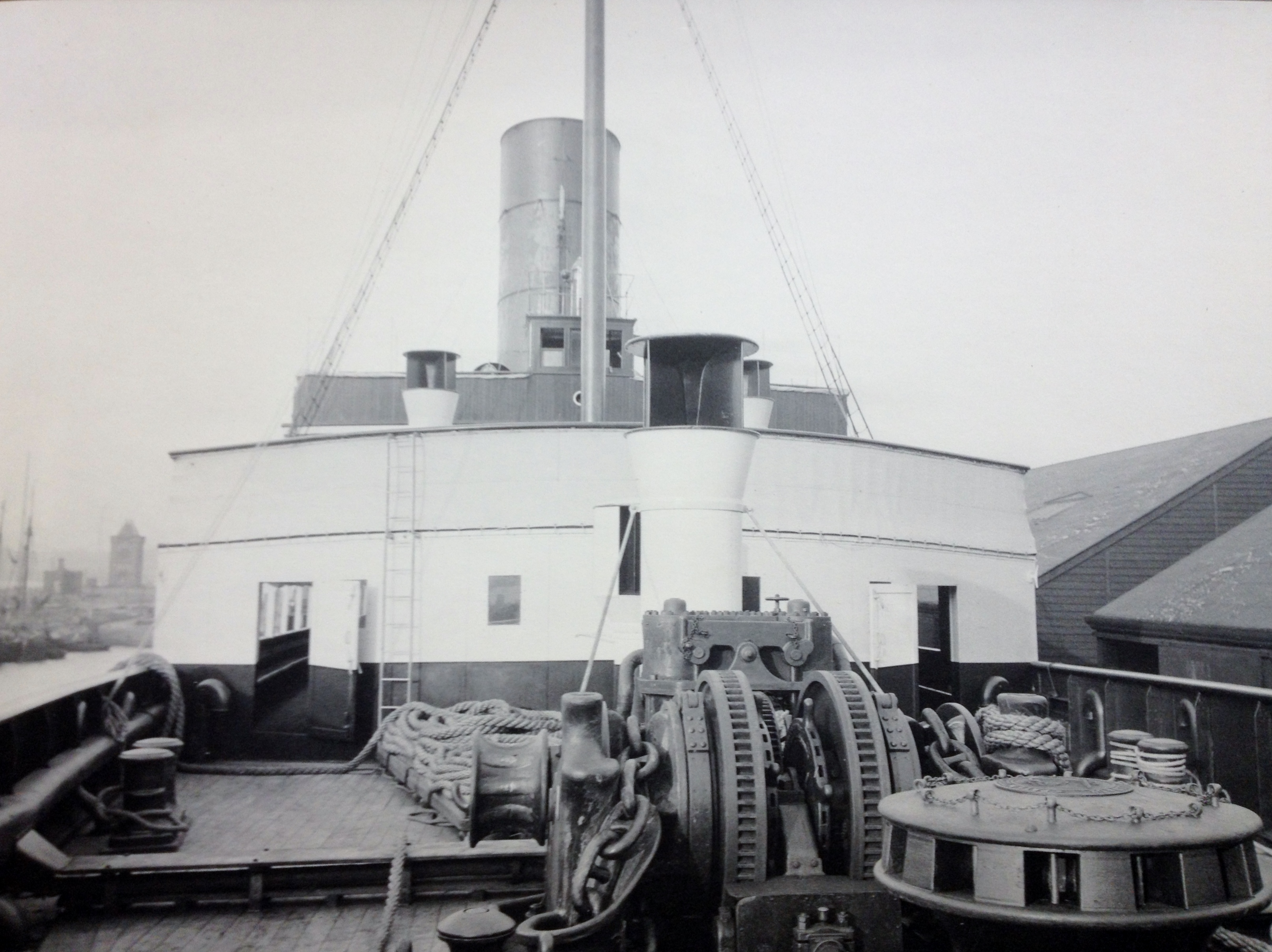 View of bridge section of Ben-my-Chree.